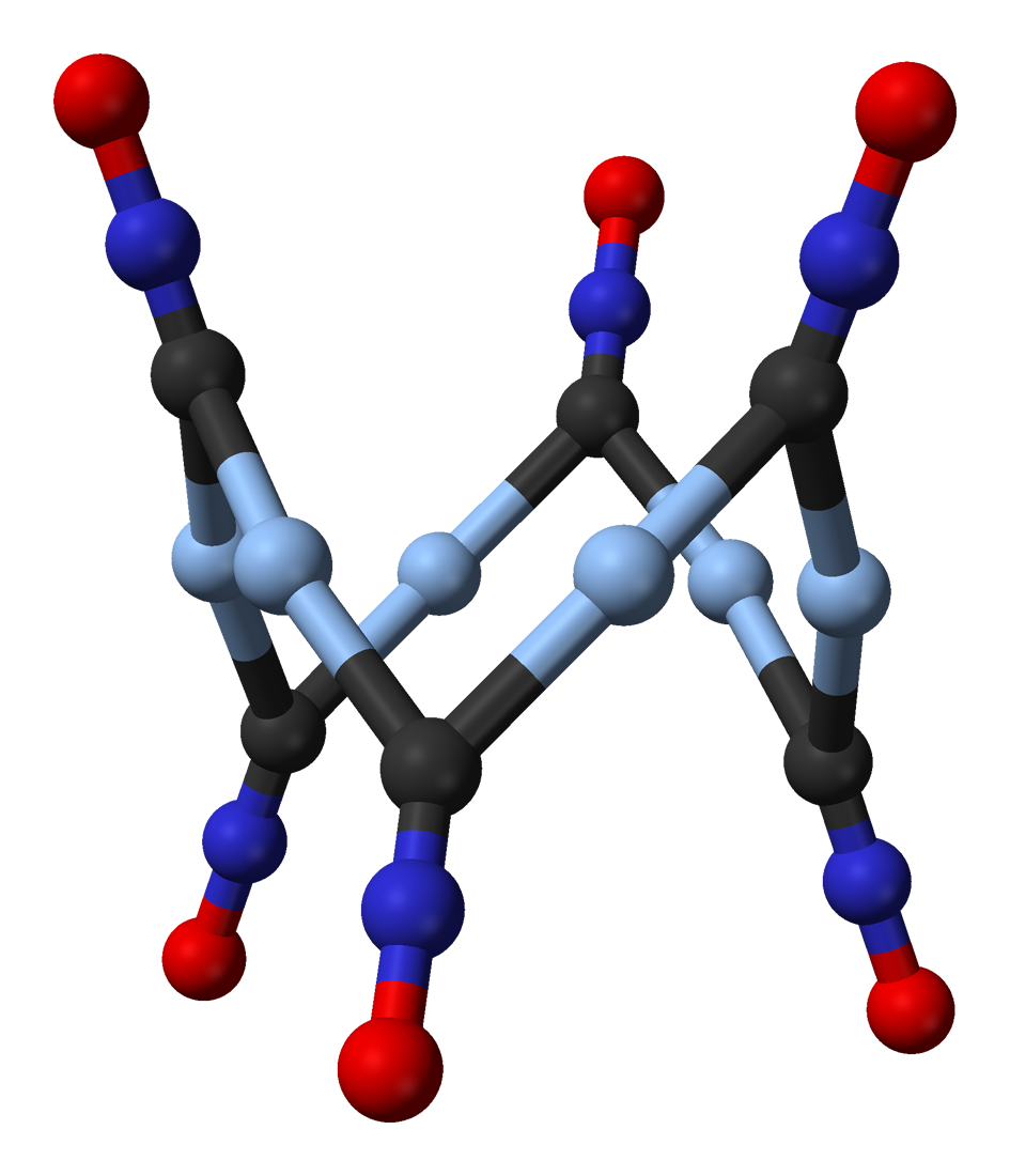 Ball-and-stick model of a cyclic hexamer, (AgCNO)6, in the crystal structure of silver fulminate, AgCNO. X-ray crystallographic data from D. Britton (December 1991). "A redetermination of the trigonal silver fulminate structure". Acta Cryst. C47 (12): 2646-2647. Image generated in Accelrys DS Visualizer.